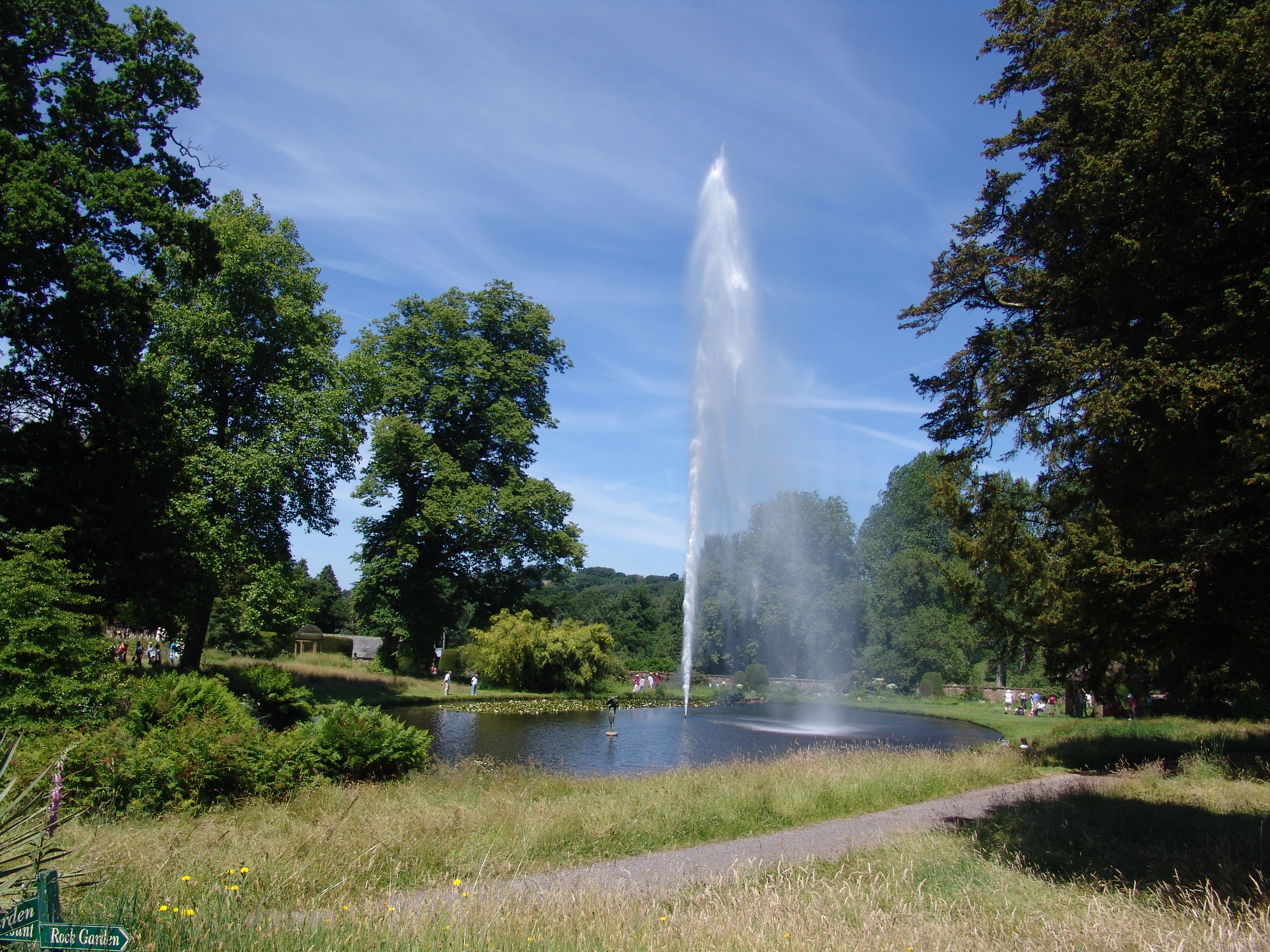 Centenary Fountain installed by the Roper family to commemorate 100 years of ownership of Forde Abbey in Dorset.